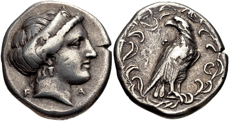 Elis, Elis/Olympia. 106th Olympiad. 356 BC. AR Stater (22mm, 11.84 g, 6h). Hera mint. Head of Hera right, wearing polos. ϜΑ (digamma-alfa) in field Eagle standing right, head left, within olive wreath.